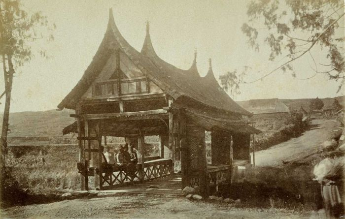 Roofed bridge across the Gumanti river